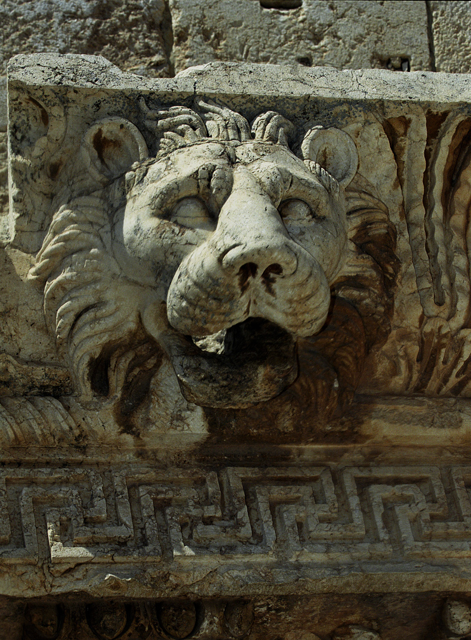 Baalbek, Temple of Jupiter